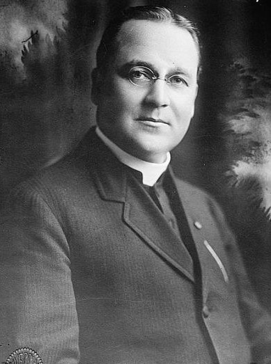 Francis Clement Kelley (1870 - 1948), the second Roman Catholic Bishop of Oklahoma